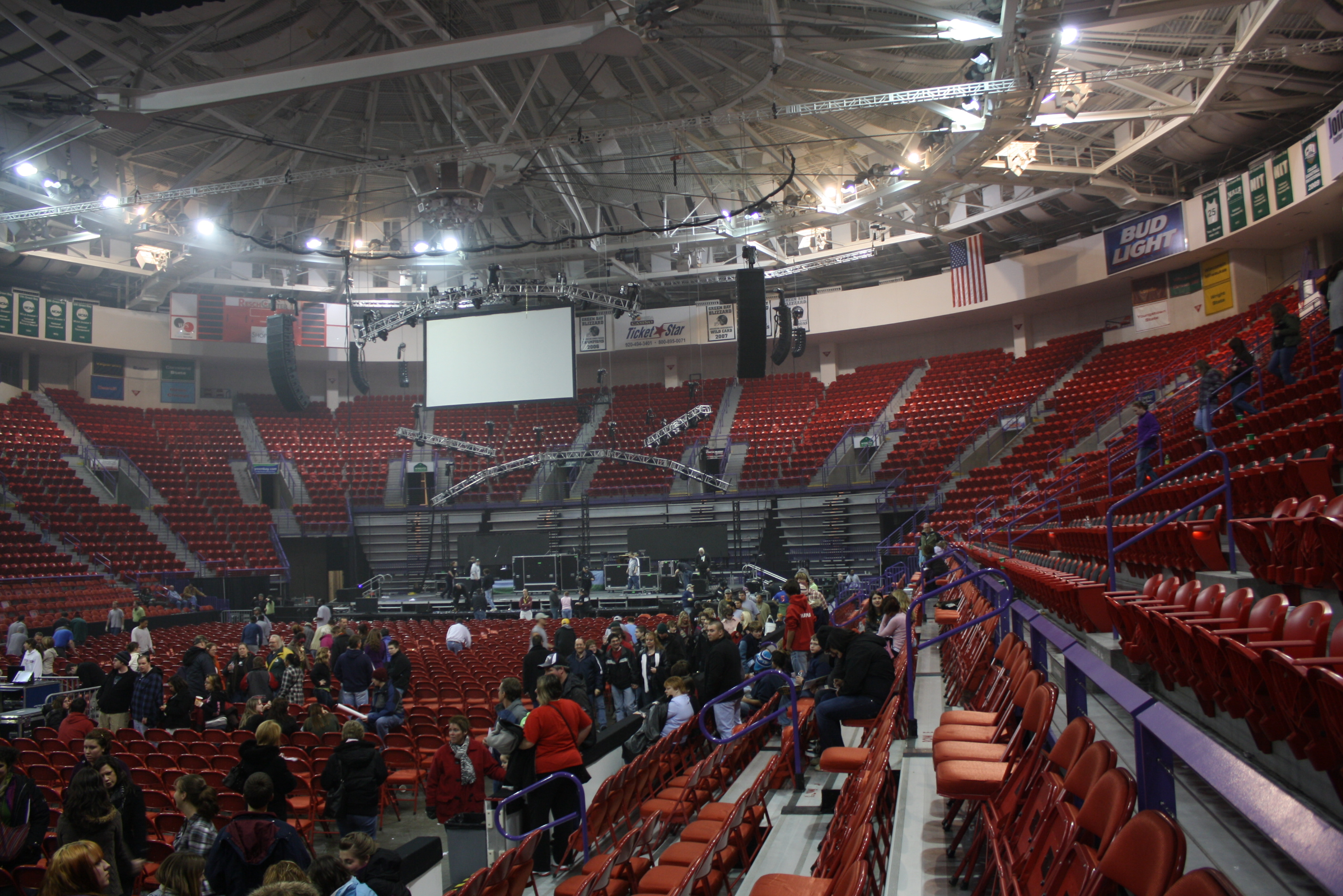 The interior of the Resch Center after the Rock and Worship Roadshow in February 2011.